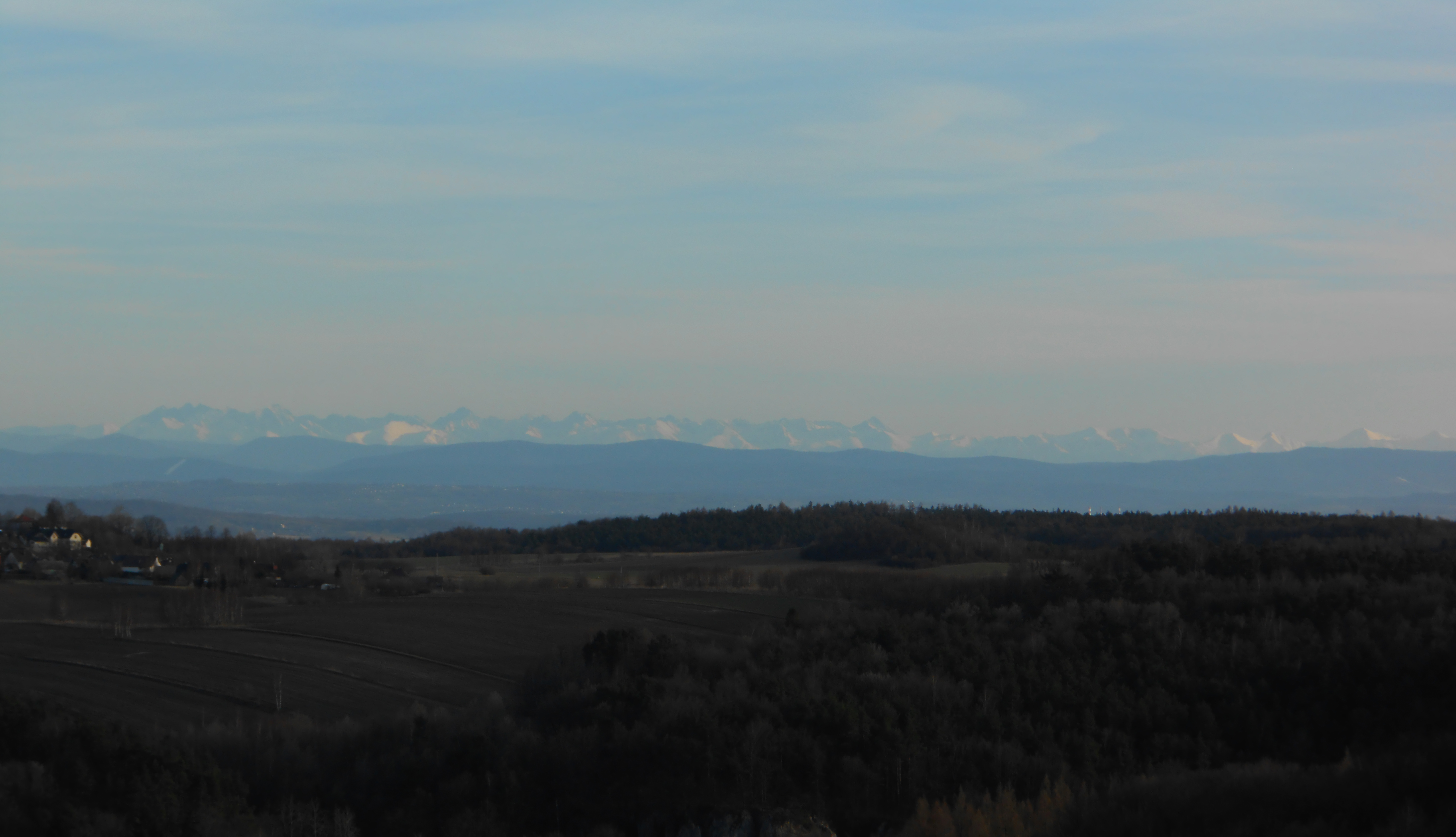 High tatra mountains panorama from hill 502